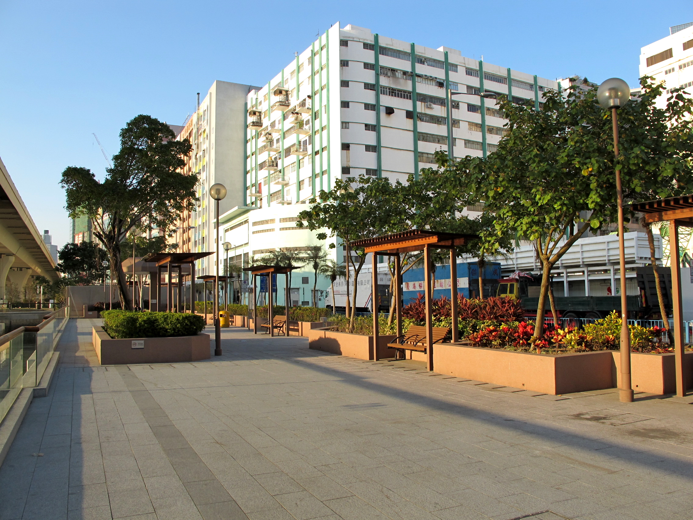 Hoi Bun Road Sitting-Out Area